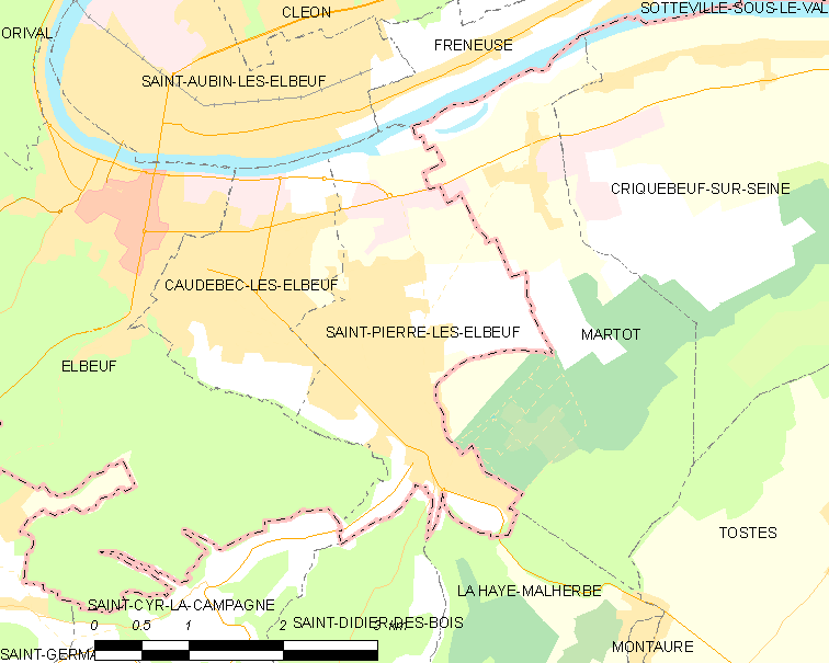 Map of French municipality Saint-Pierre-lès-Elbeuf